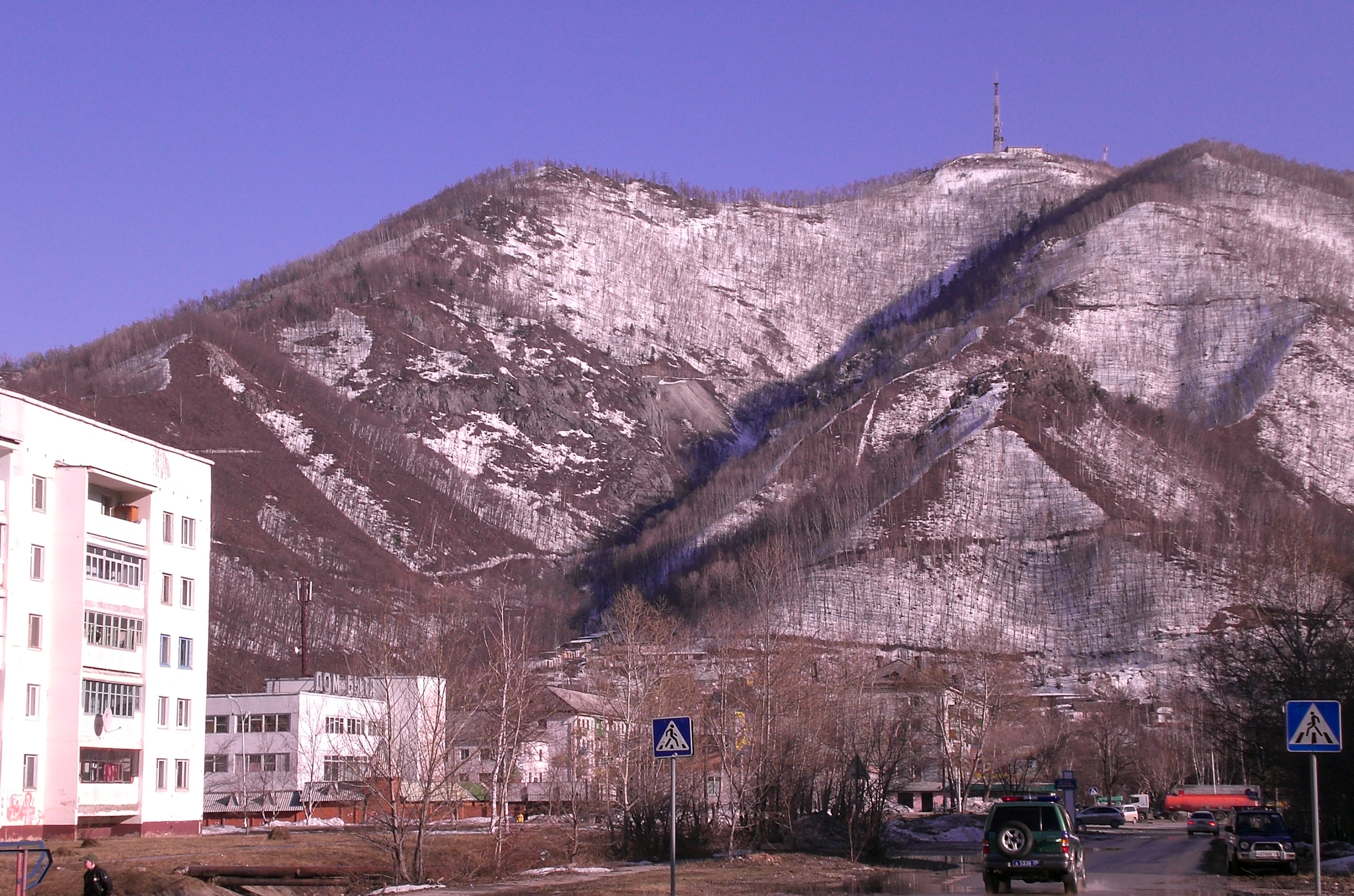 Mountain television (804 m), Dalnegorsk, Primorsky region, Russia